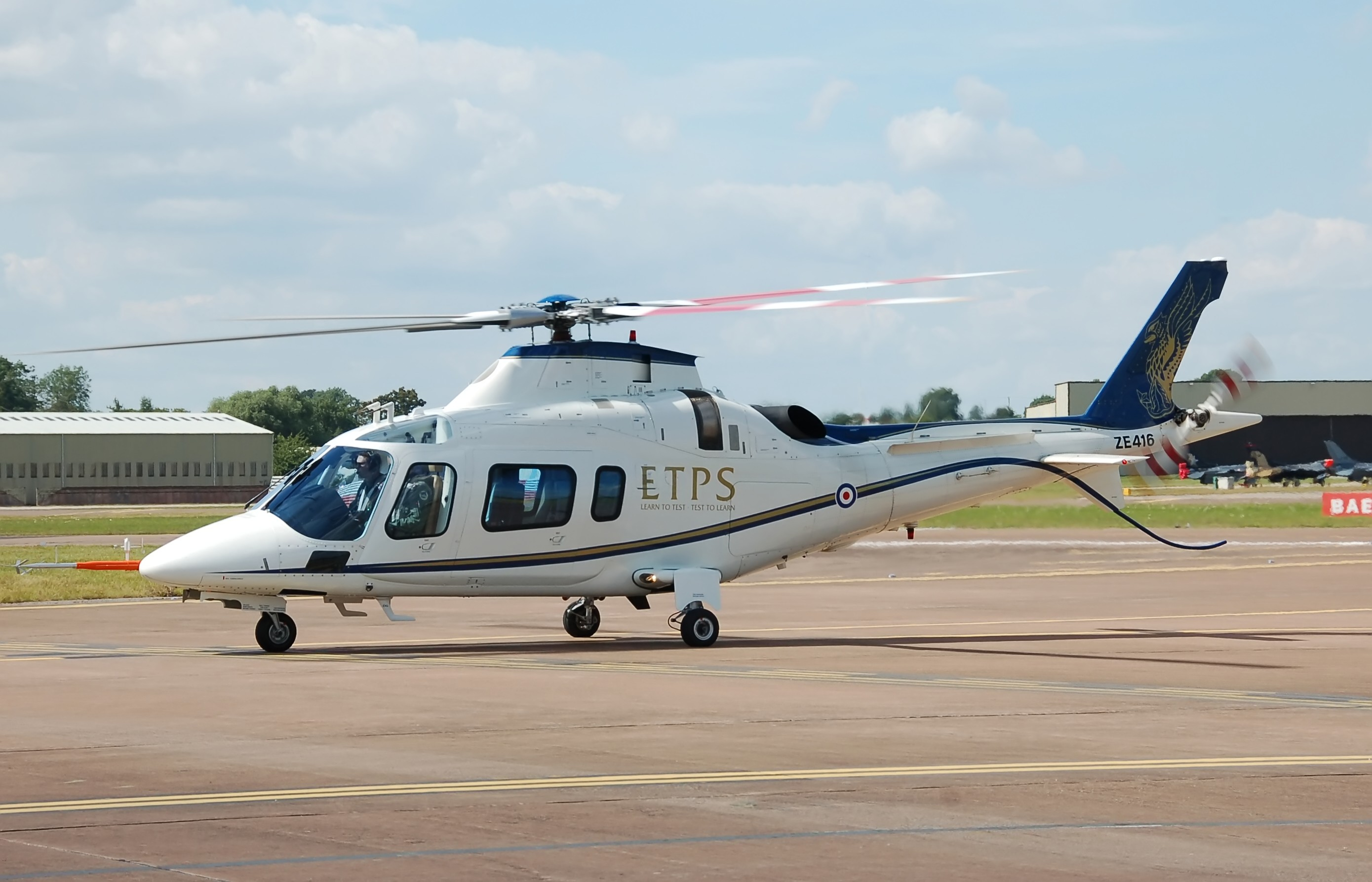 Qinetiq AgustaWestland AW109E Power (ZE416) arrives for the 2014 Royal International Air Tattoo, RAF Fairford, Gloucestershire, England. SORRY FOR THE FILENAME ERROR, THIS IS A 109E NOT A 105E.